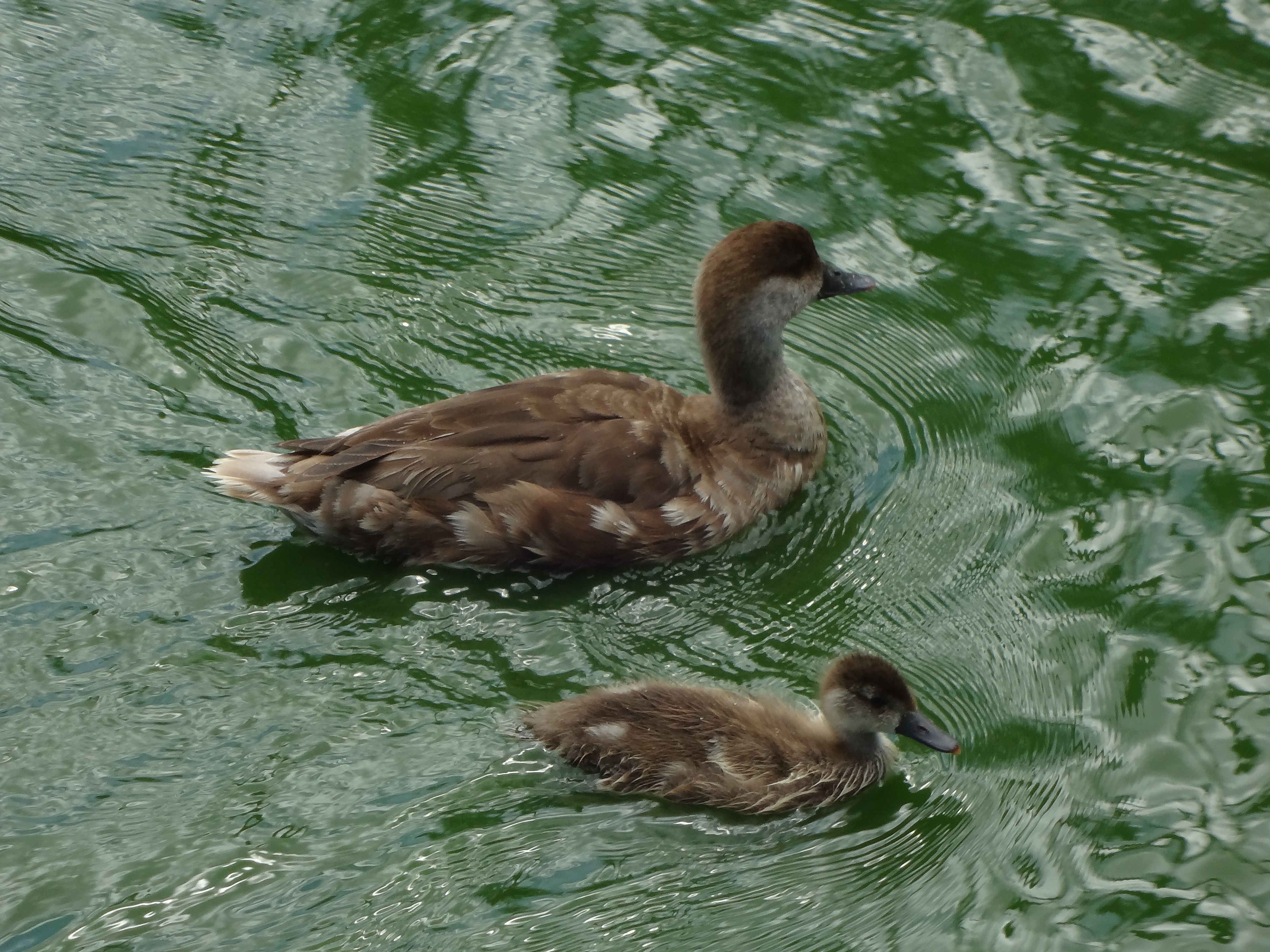 Faunia in Madrid, Spain